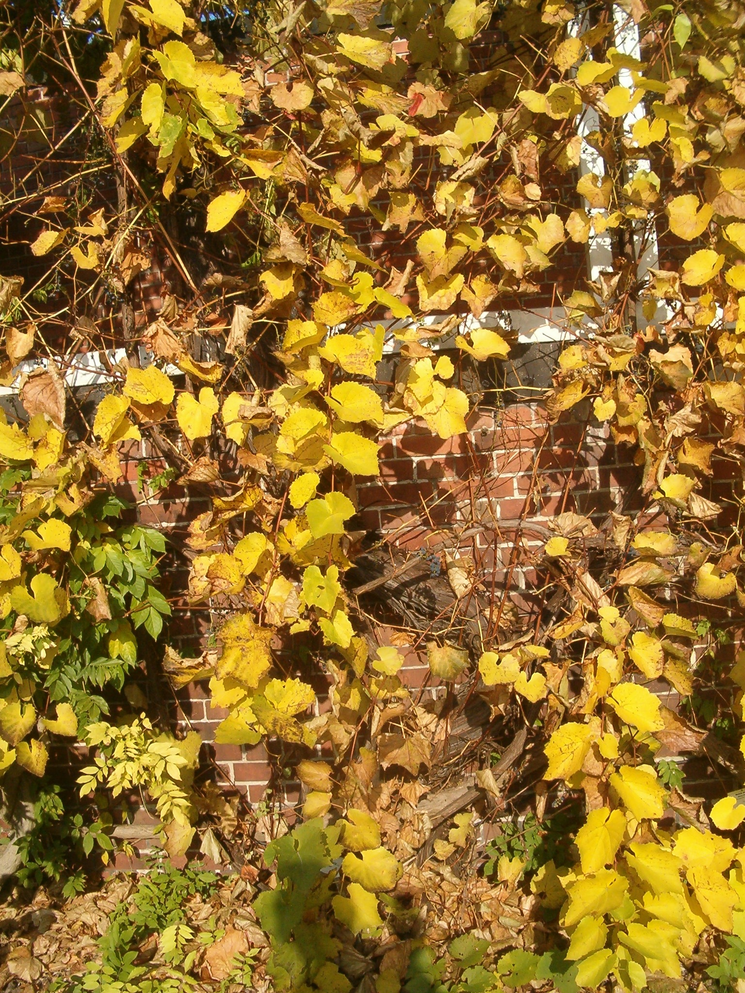 Species Vitis amurensis in autumn in the Botanical Gardens Berlin Dahlem